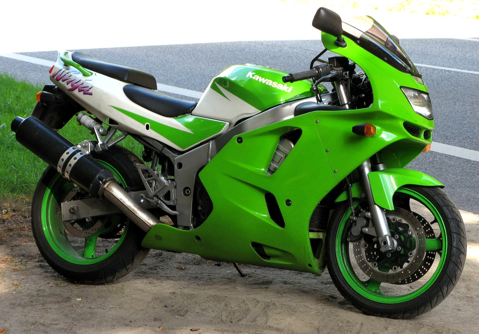 Kawasaki ZX-6R (ZX600F) aus 1995. you can see that the back end is more square than the 1997,8 etc